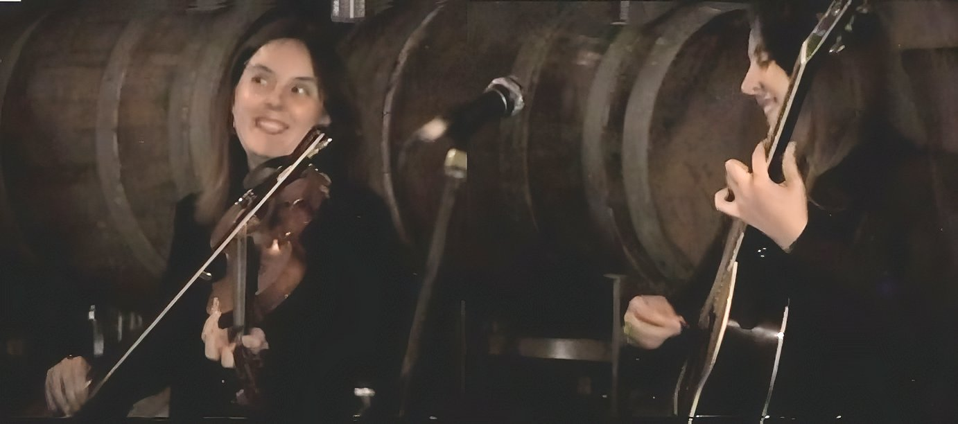 The Wrigley sisters, Orkney folk musicians on stage in Hobart, Tasmania, March 2002 (photograph by Tony Rees)